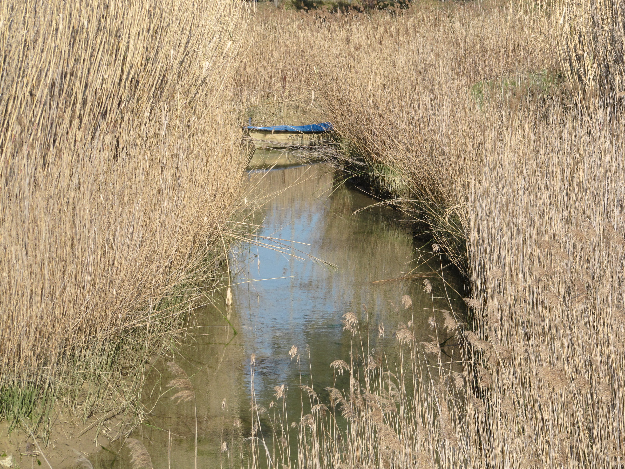 Roja, stream in Slovenia near Strunjan